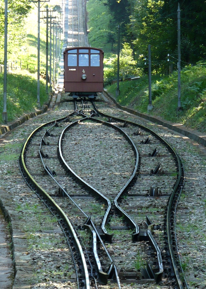 Funicular to Königstuhl (mountain) in Heidelberg, Germany